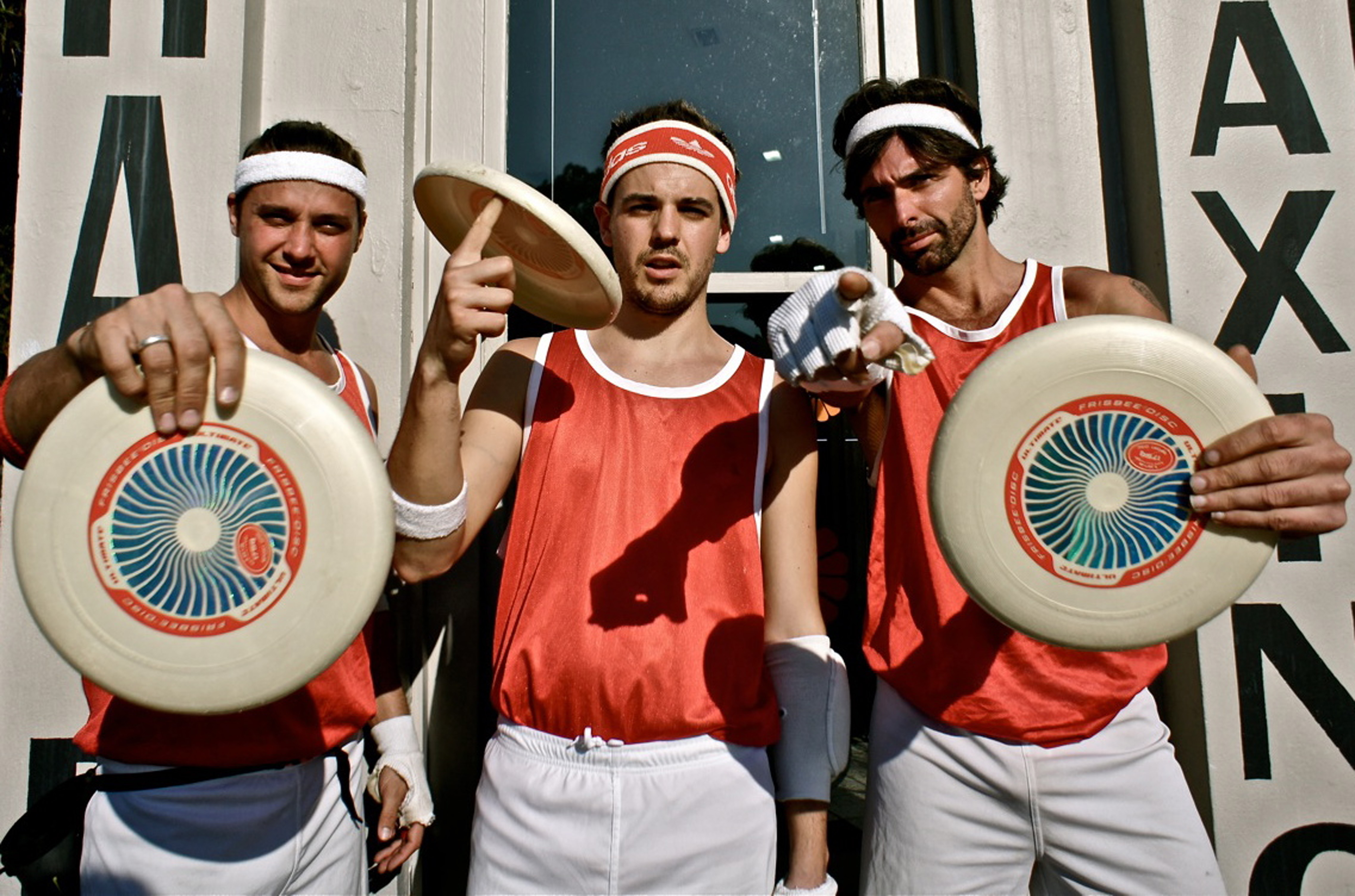 The Trip members: Chad, Wes and Marco with the frisbees from their viral music video for "On The First Time"